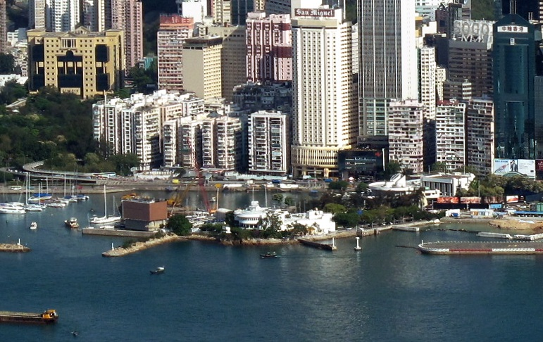 Causeway Bay View from ICC 銅鑼灣 Cropped version, zoom on the Royal Hong Kong Yacht Club